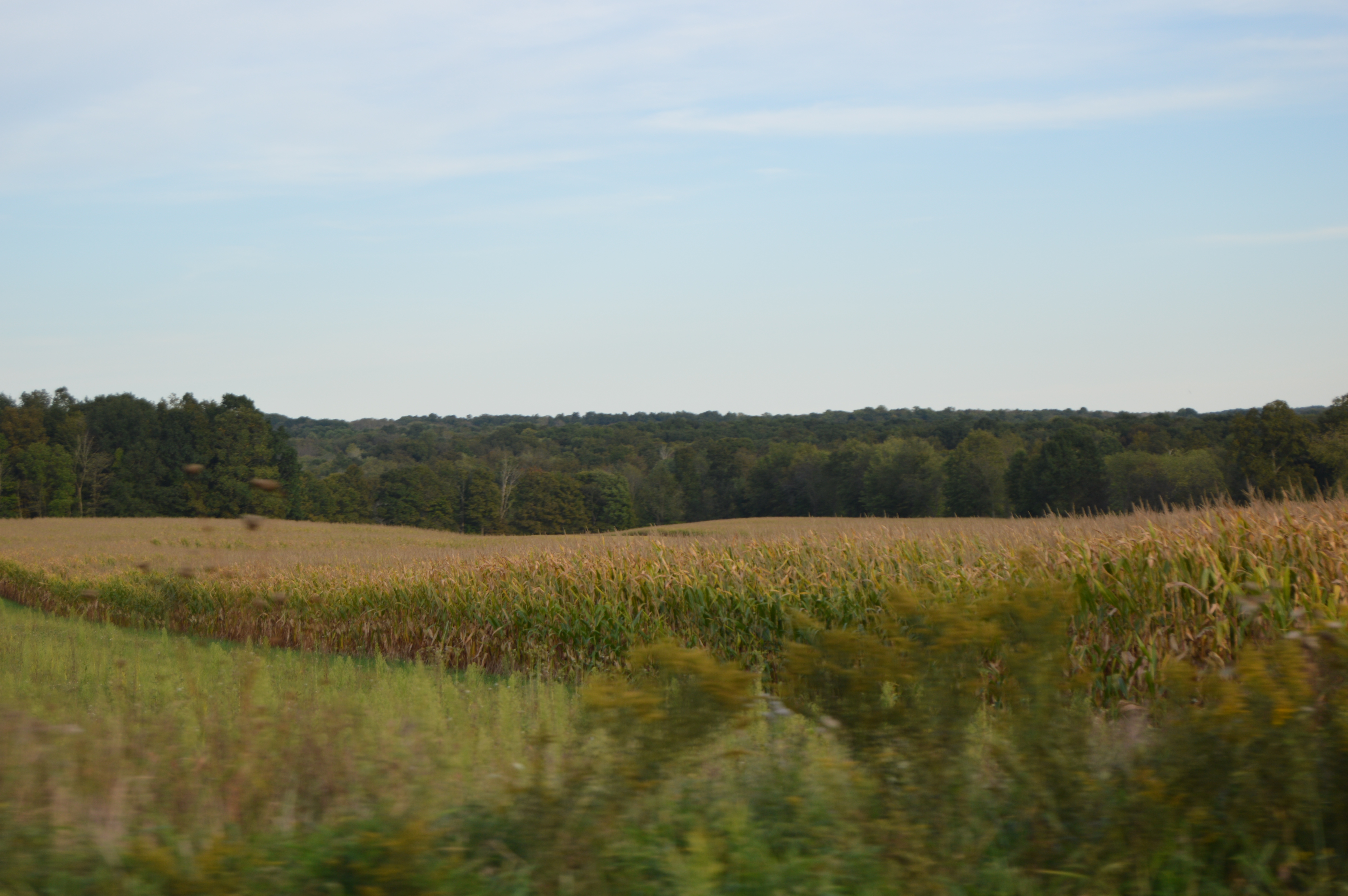 Cornfield on the eastern side of Airport Road just south of Stoneboro Road, east of Fredonia, in Fairview Township, Mercer County, Pennsylvania, United States.